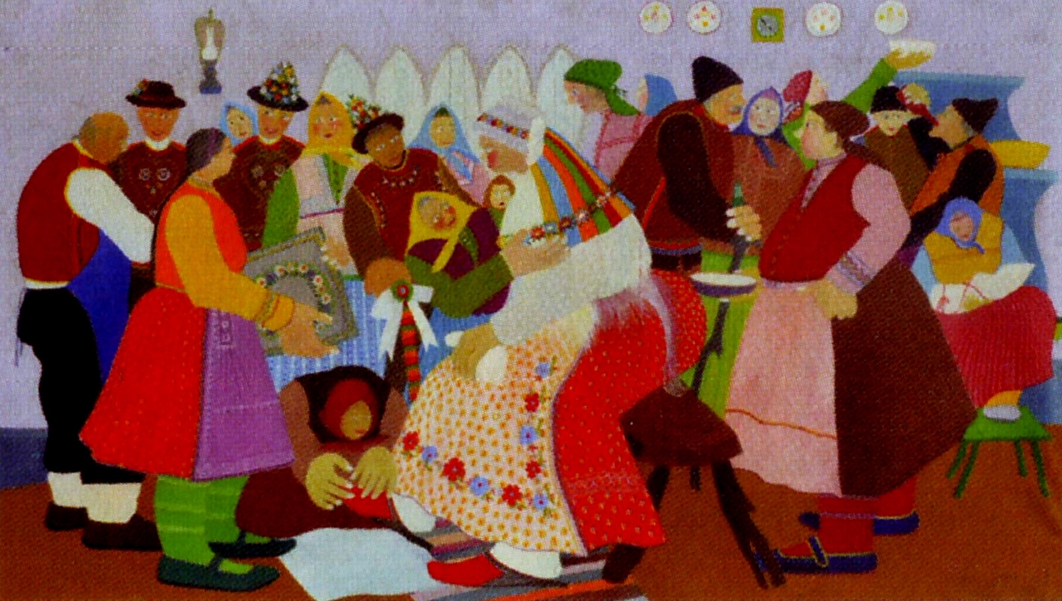 Svadba v Kovačici (Wedding in Kovačica) - oil on canvas (63x108) - 1962 Srpski (latinica): Svadba v Kovačici (Svadba u Kovačici) - ulje na platnu (63x108) - 1962